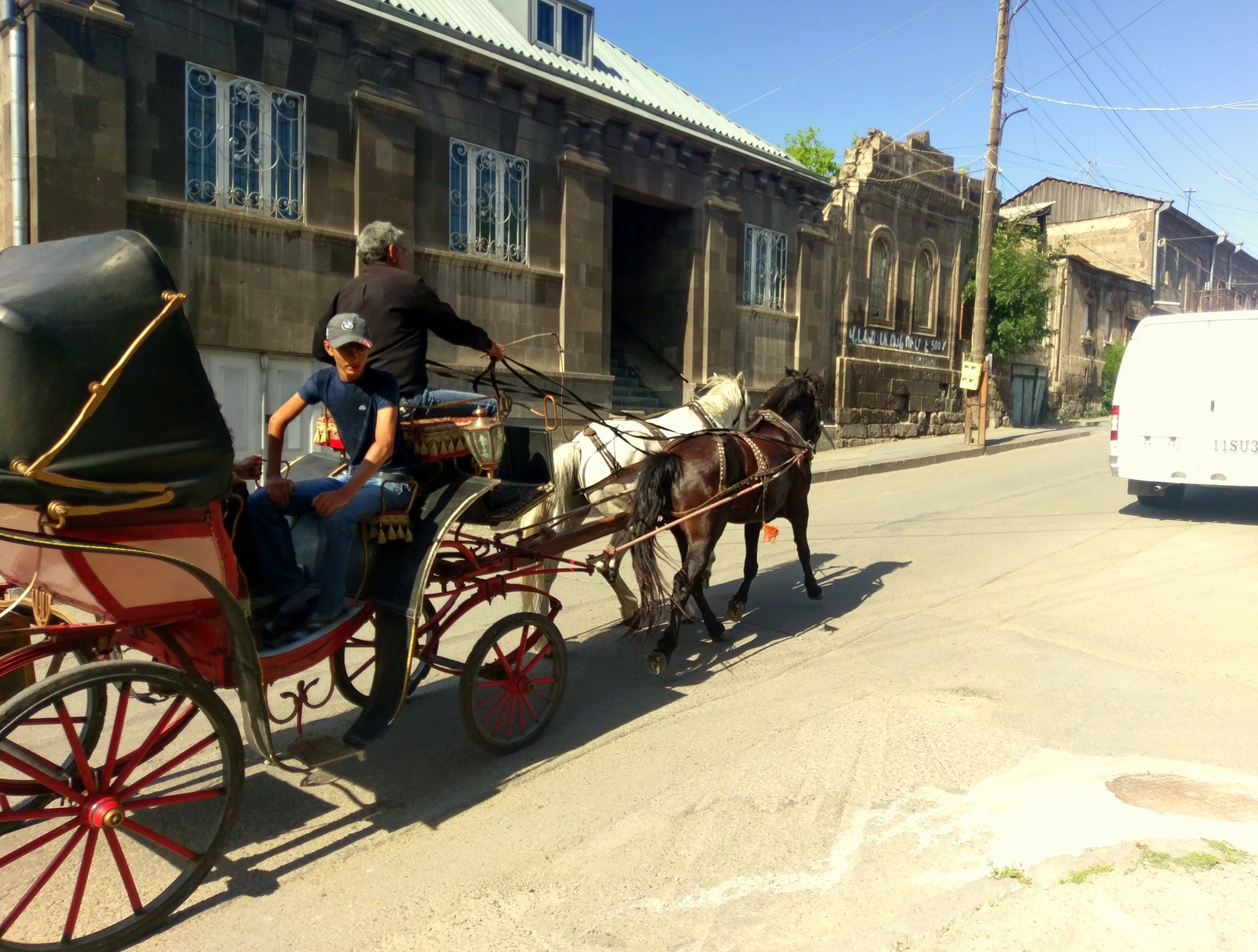 Horse-drawn carriage locally known as fayton on Gorki Street, Gyumri, Armenia.